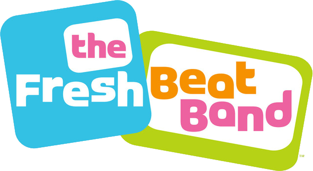 Logo of The Fresh Beat Band